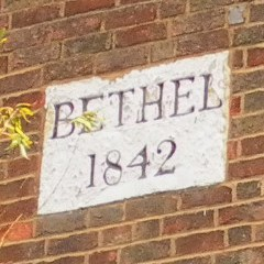 Date stone on the façade of the former Bethel Strict Baptist Chapel, High Street, Robertsbridge, District of Rother, England. Inscribed bethel / 1842.